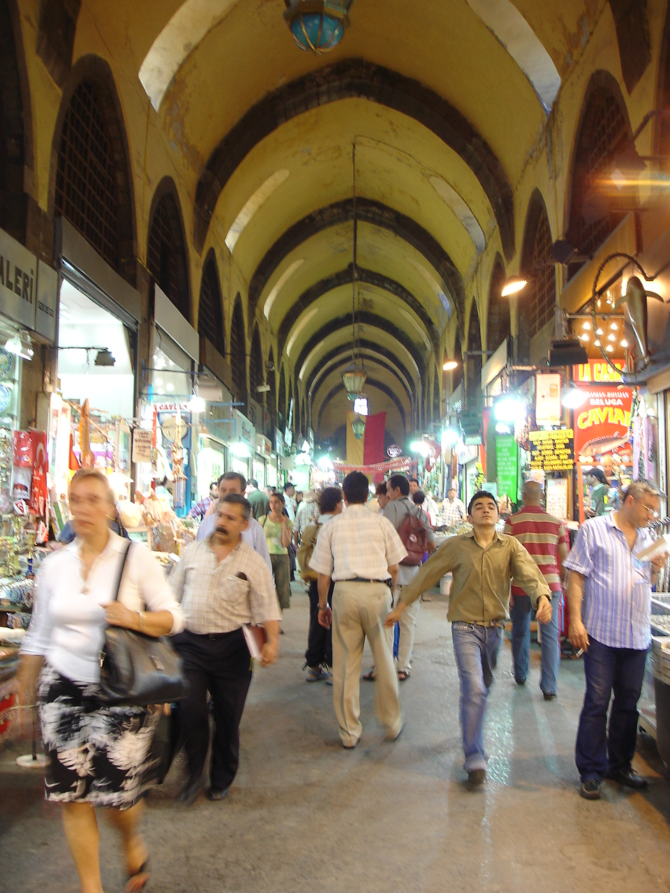 The colourful Spice bazaar (or "Egyptian Bazaar") in Istanbul. Picture by: Giovanni Dall'Orto, May 30 2006.